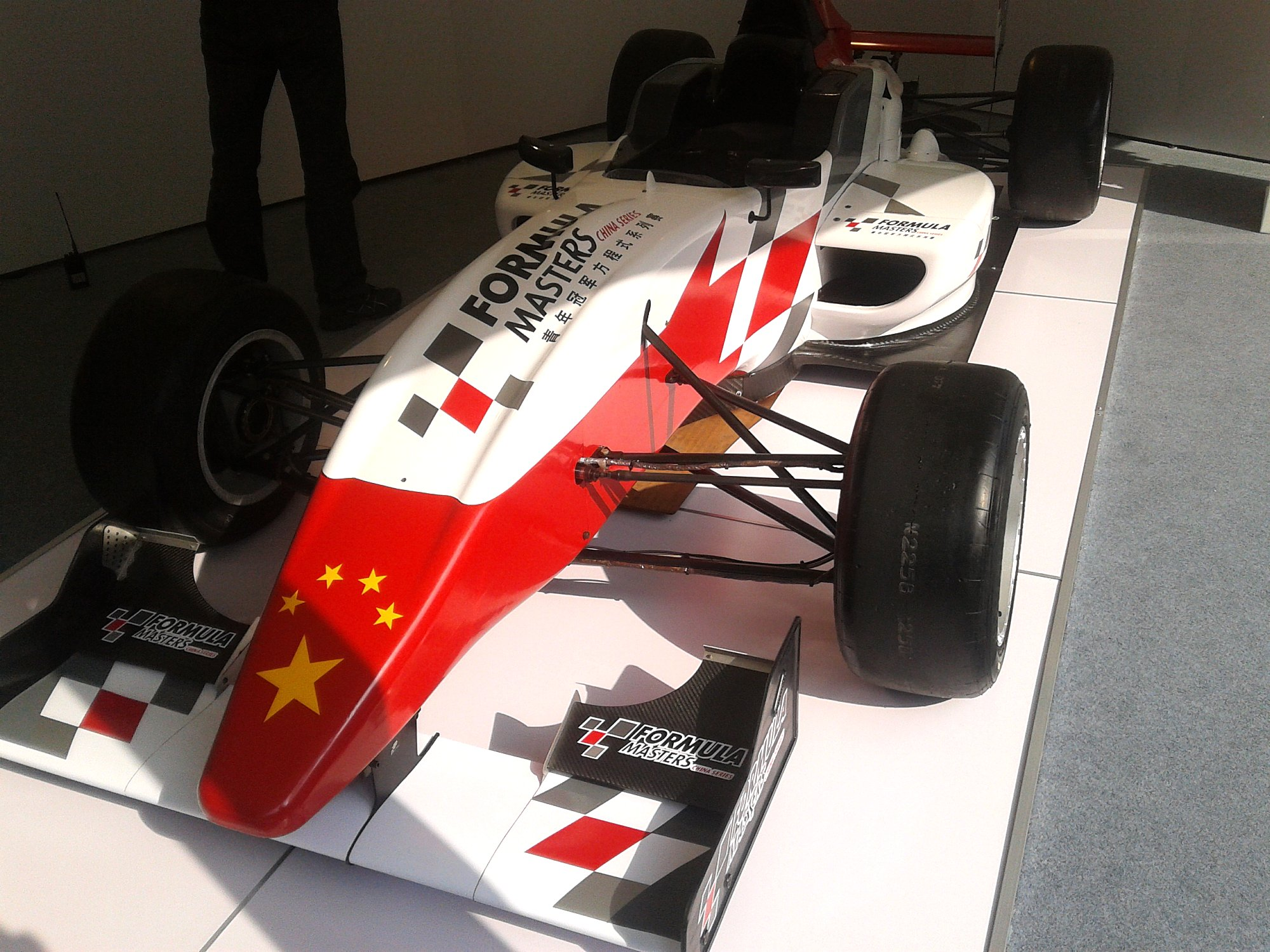 2013 Formula Masters China tatuus chassis 中文（香港）: 2013年青年方程式挑戰賽賽車